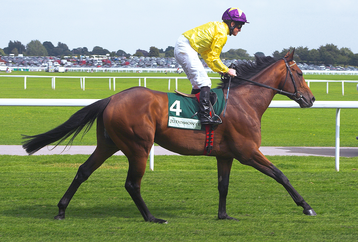 Sea The Stars at York